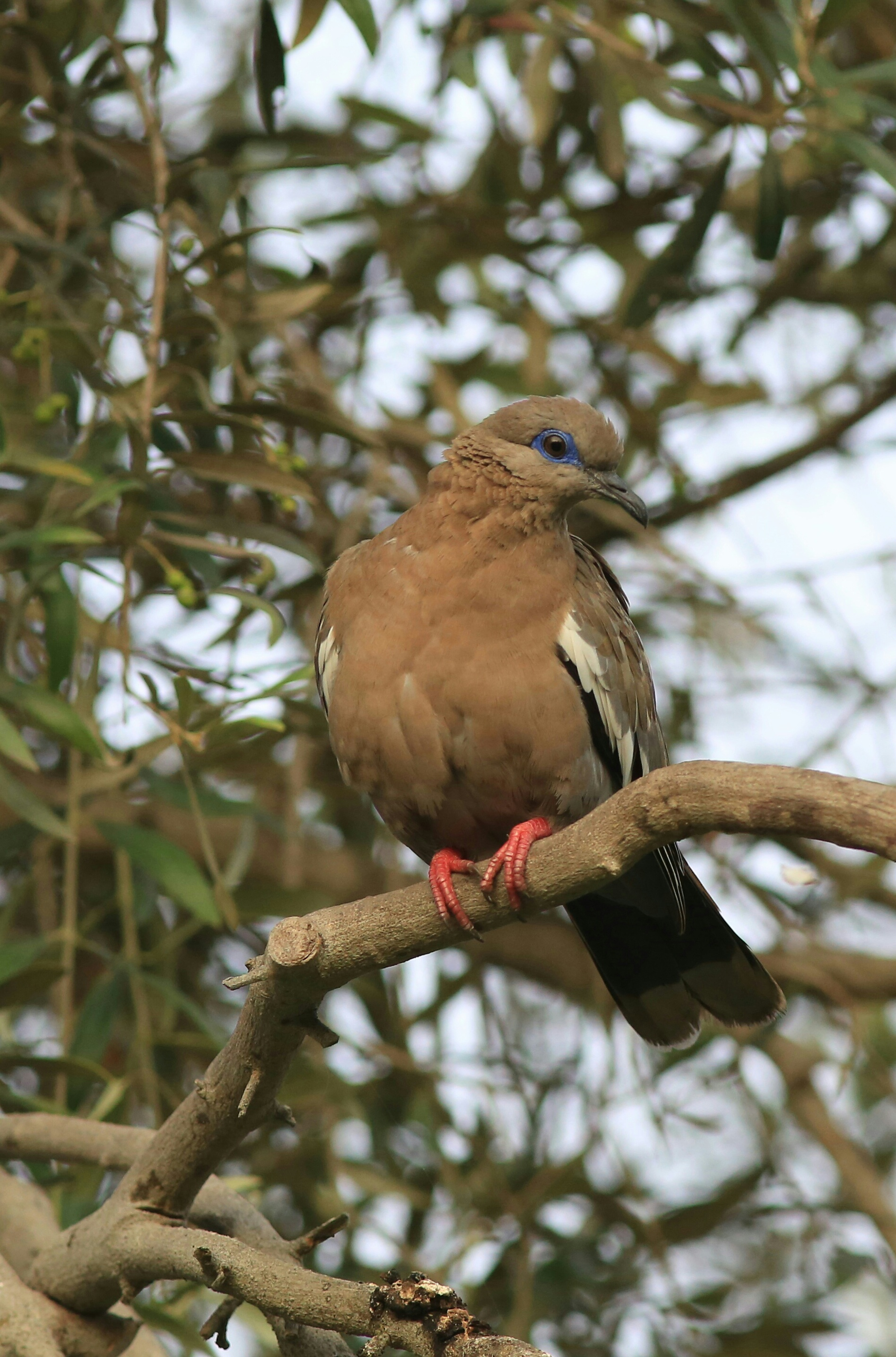 A West Peruvian Dove in Lima, Peru.